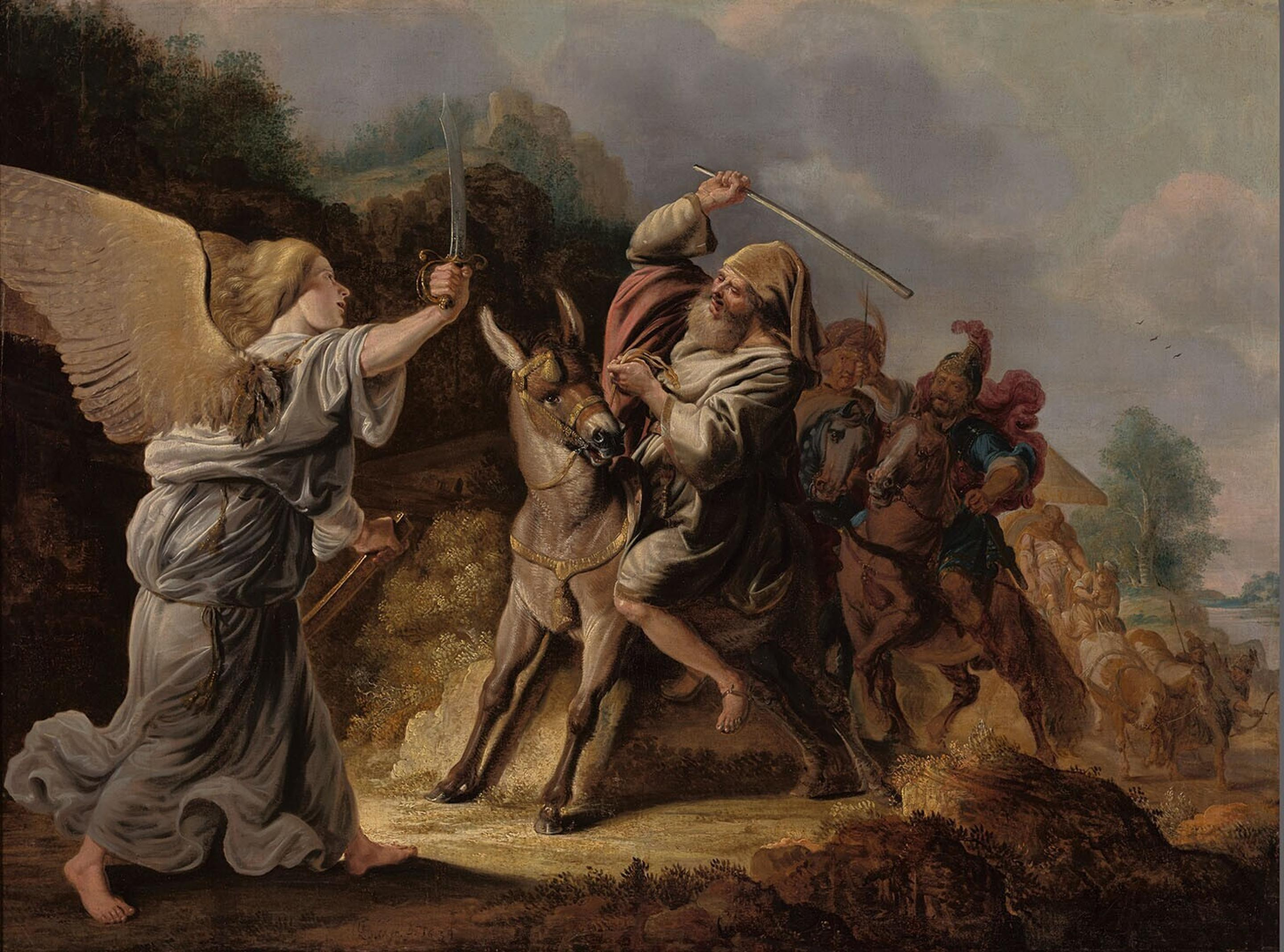 The ass with the prophet Bileam stopped by the angel, Gerrit Claesz. Bleker, 1634, oil on canvas, 95,5 by 128,5 cm, Museum Boijmans van Beuningen